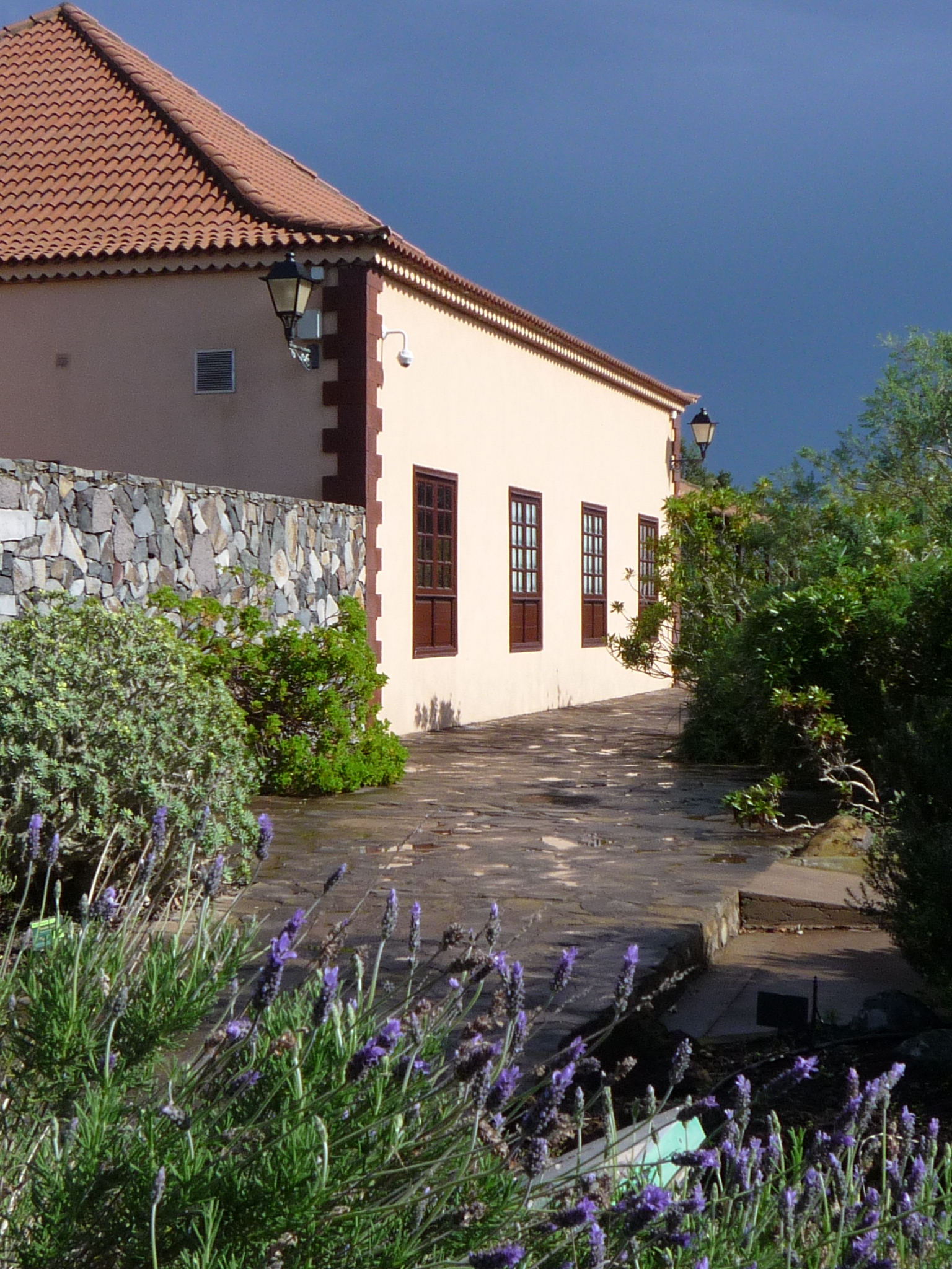 Juego de Bolas Visitor Centre (Garajonay National Park), La Gomera, Spain)